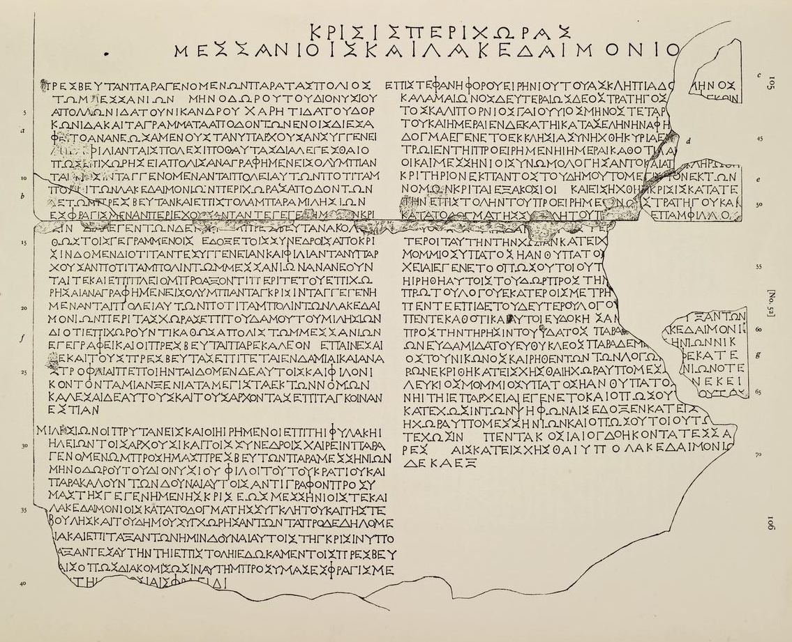 Krisisinscribtion of the Nike of Paionios.